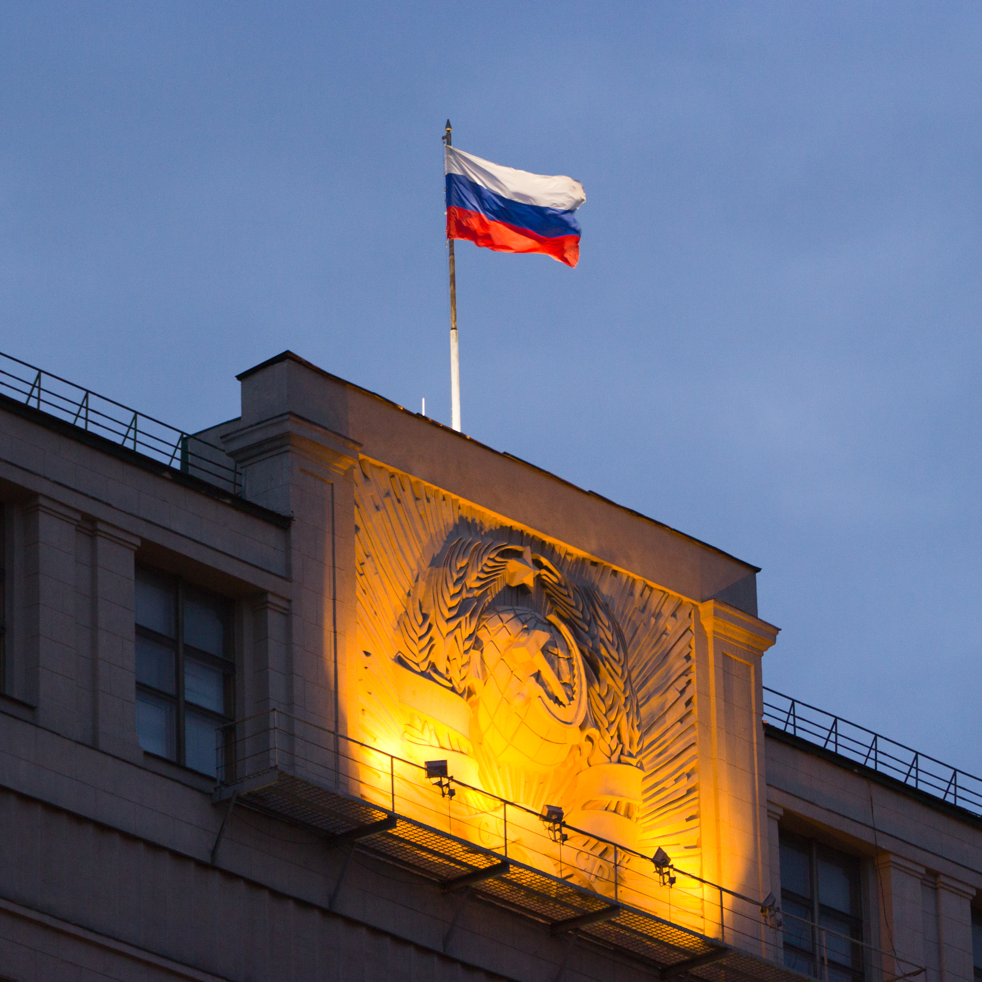 Russia